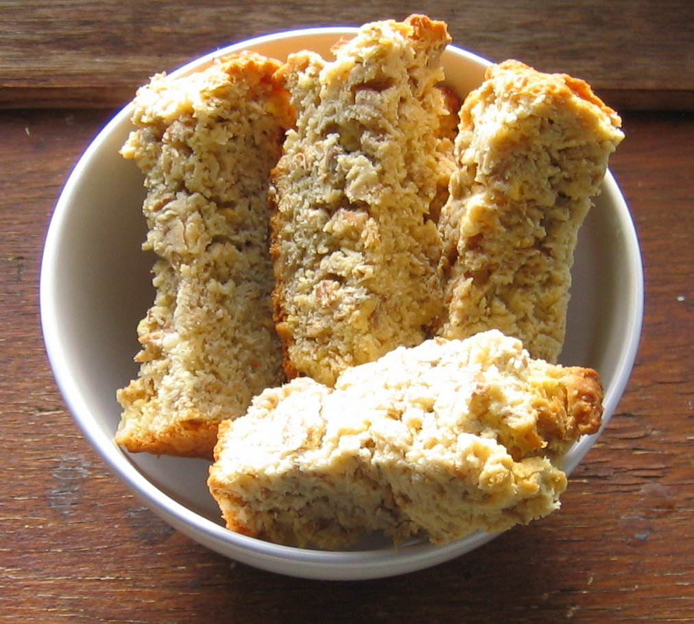 A bowl of rusks, made with a selection of 7 grains.